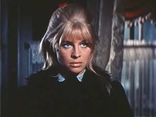 Cropped screenshot of Julie Christie from the trailer for the film Doctor Zhivago